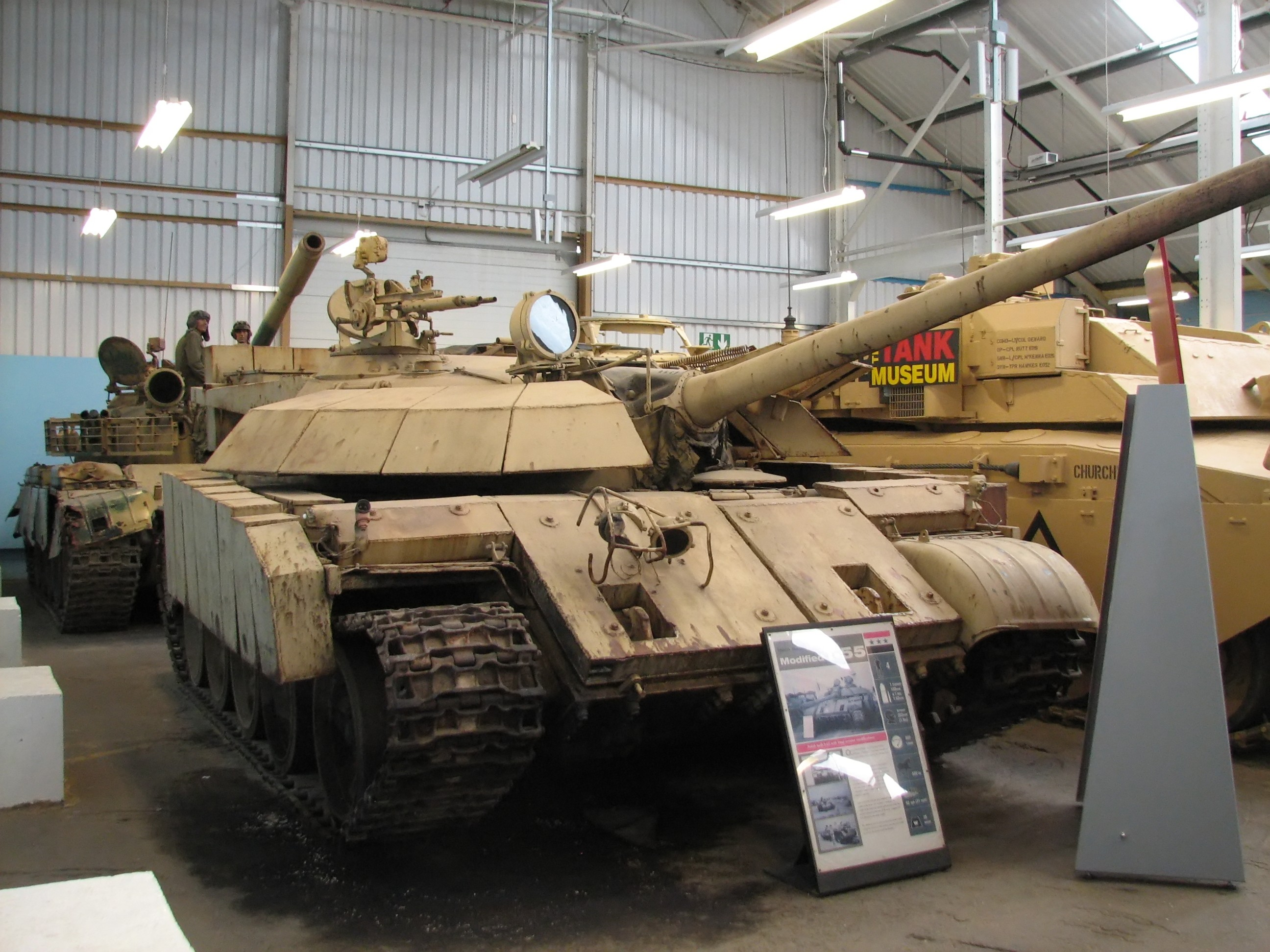 Polish built, Iraqi modified T-55AD modification 77 Main Battle Tank of 5th Iraqi Mechanised Division at Bovington Tank Museum.